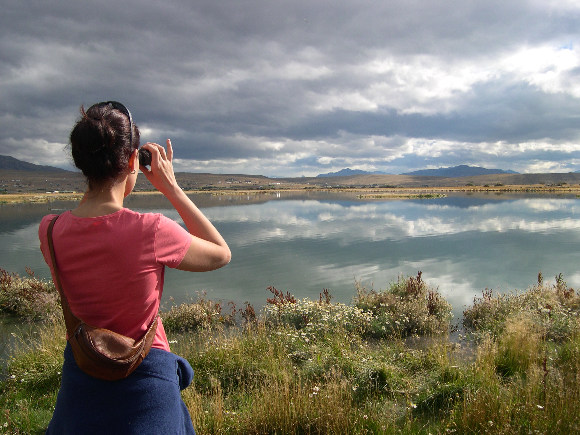 Nimes Lake Argentina South near Calafate